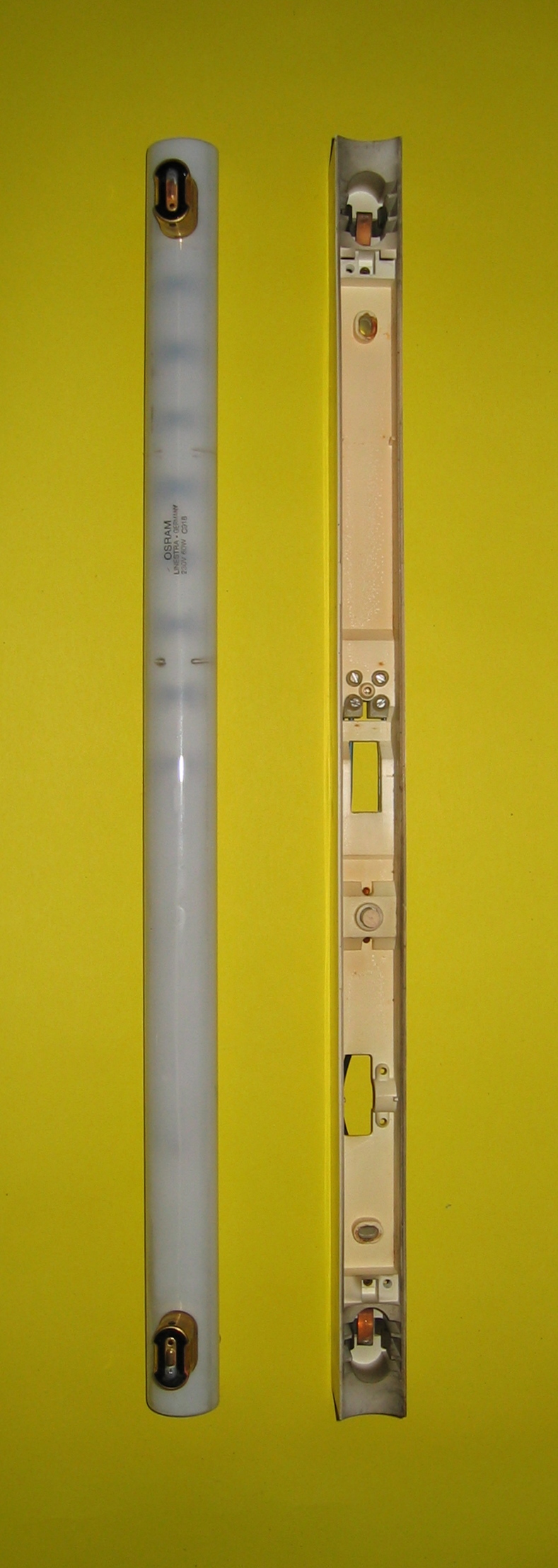 Linestra is a proprietary incandescent lamp in the shape of a tube. Photographed with "lamp disassembled" from lampholder. Frontal view.